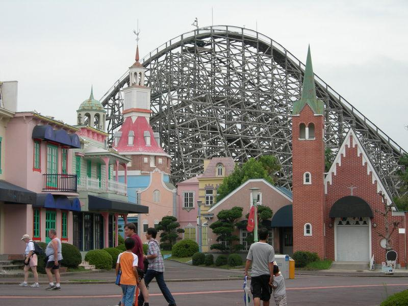 Aska at Nara Dreamland, Japan